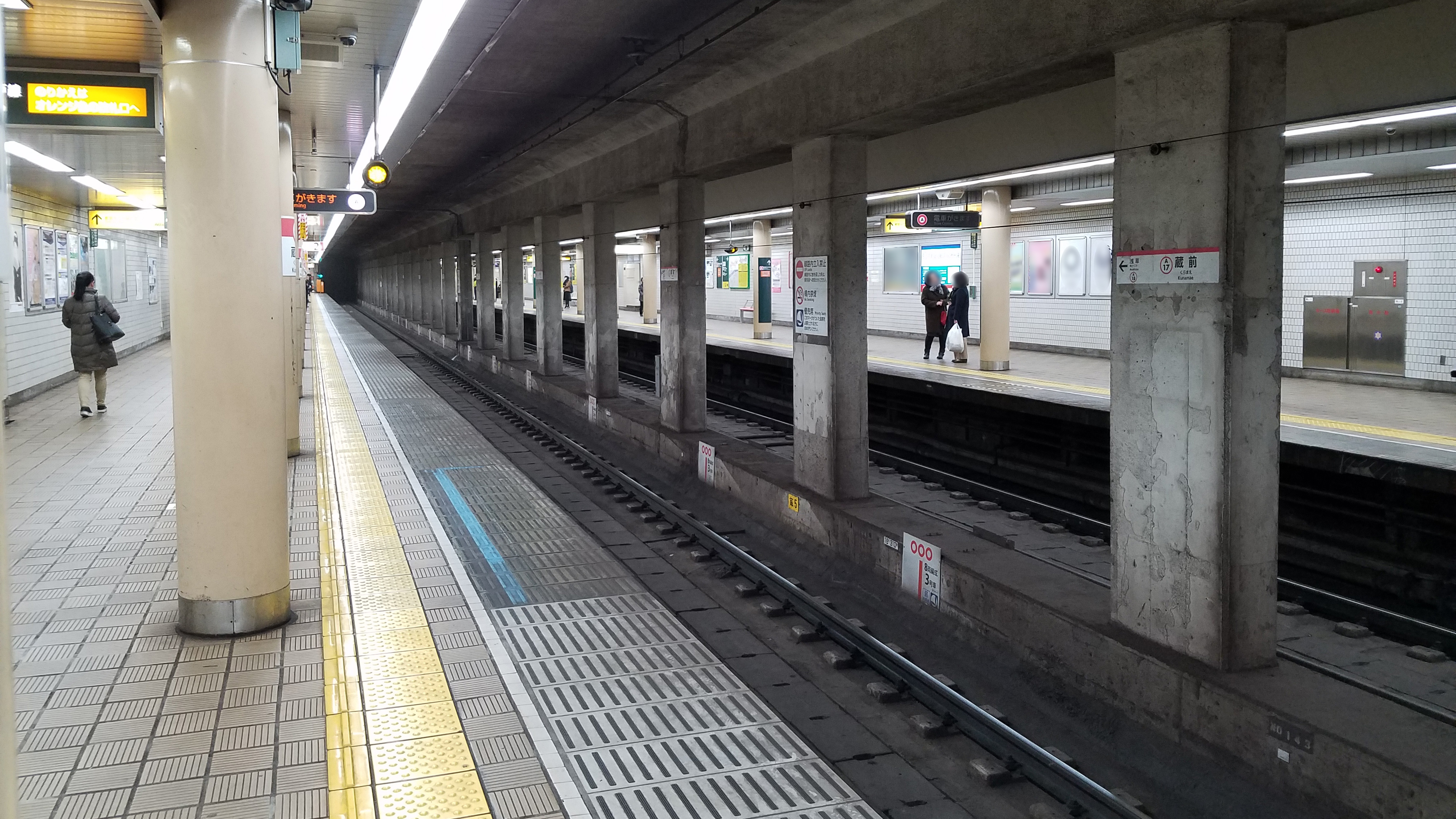 The platforms at Kuramae Station on the Toei Asakusa Line in Taitō city, Tokyo, Japan